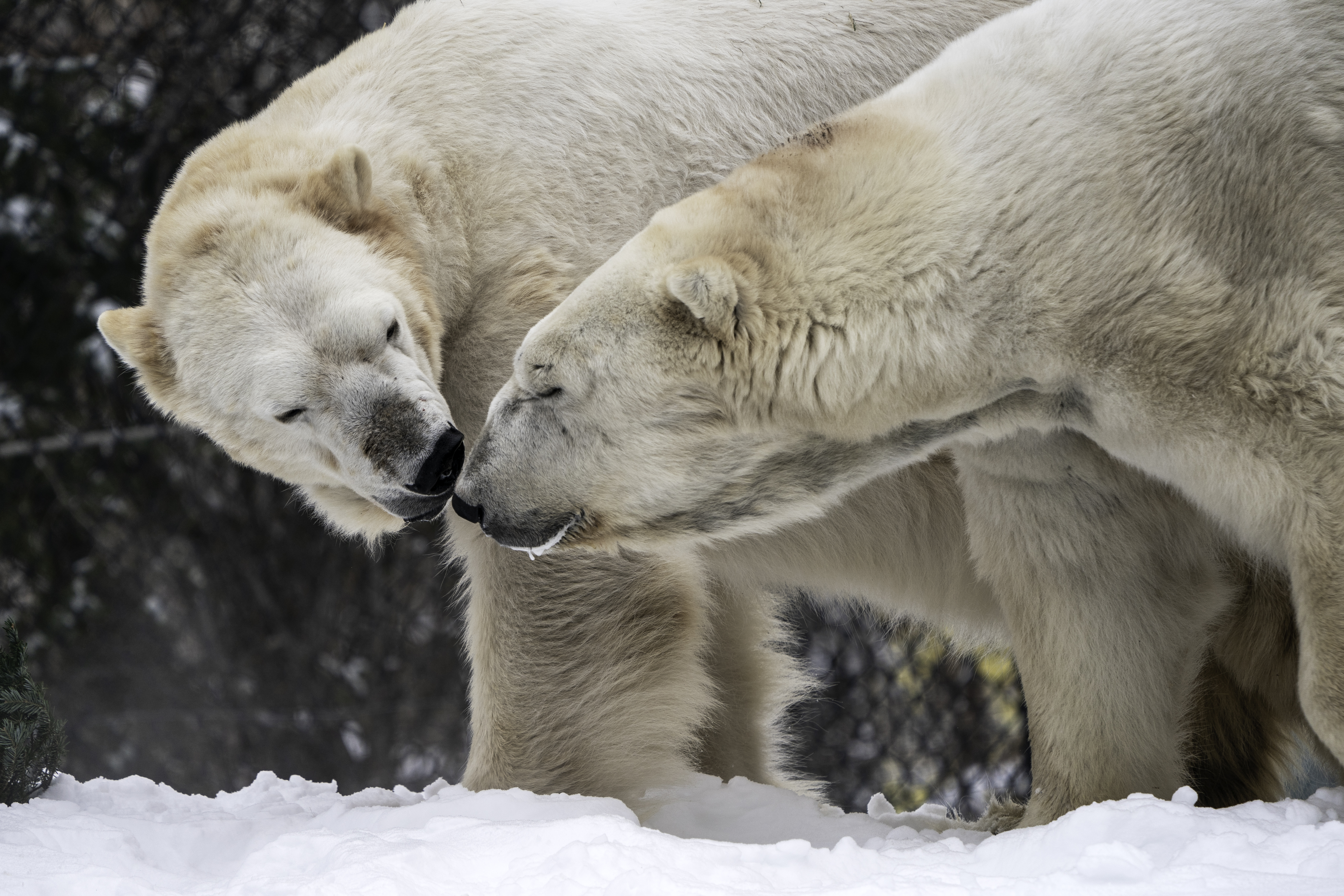 Polar bears in the snow at the Como Zoo in St Paul, Minnesota